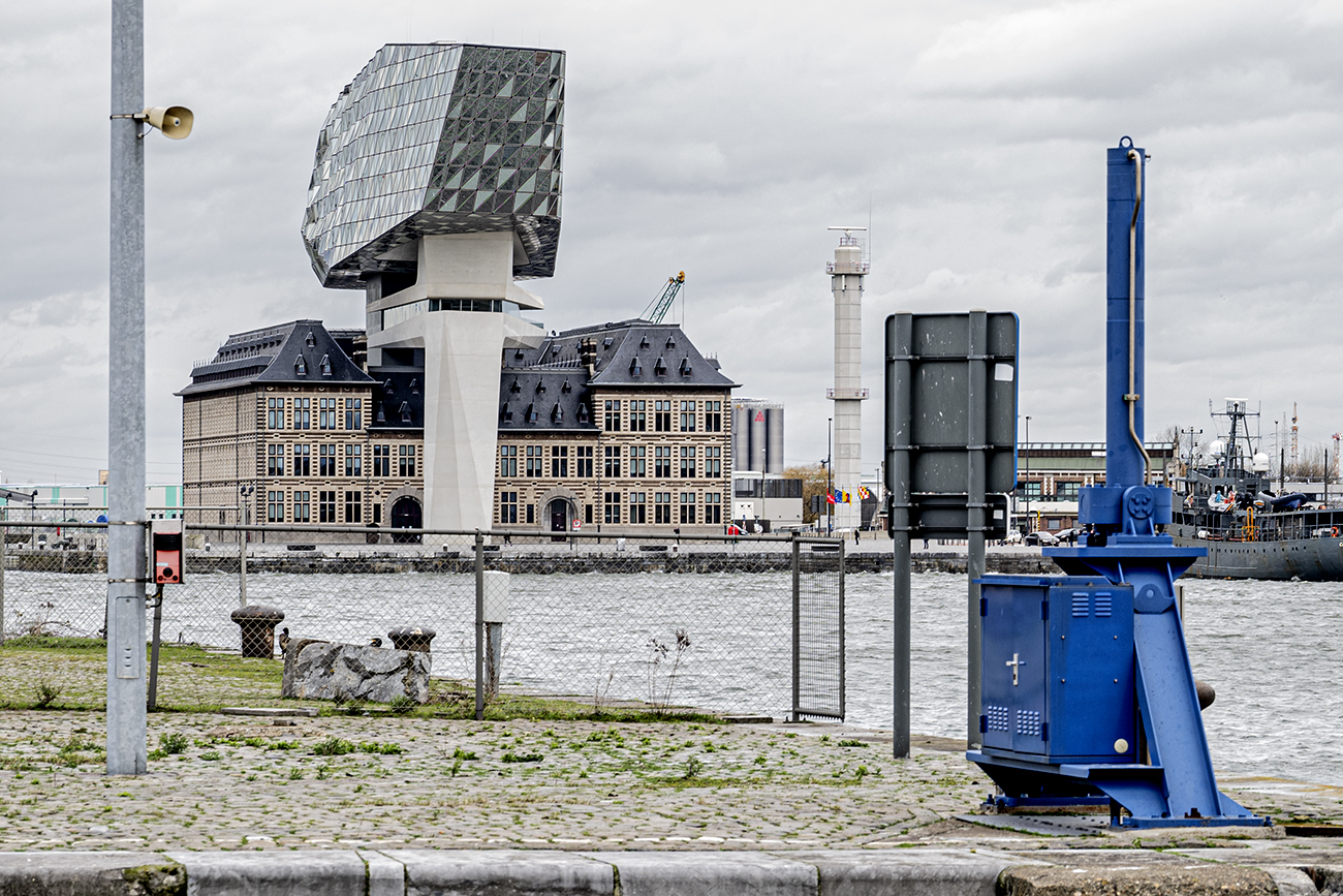 Port House/Havenhuis, Antwerpen